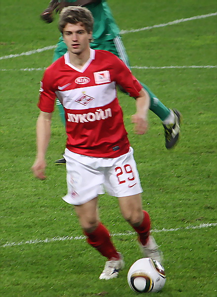 Pavel Golyshev